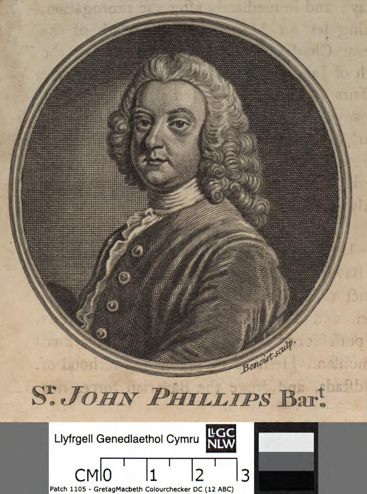 A portrait from the Welsh Portrait Collection at the National Library of Wales. Depicted person: Sir John Philipps, 4th Baronet – Welsh politician